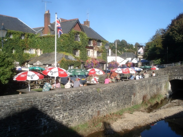 White Horse Inn Popular tea garden by the river at Exford.